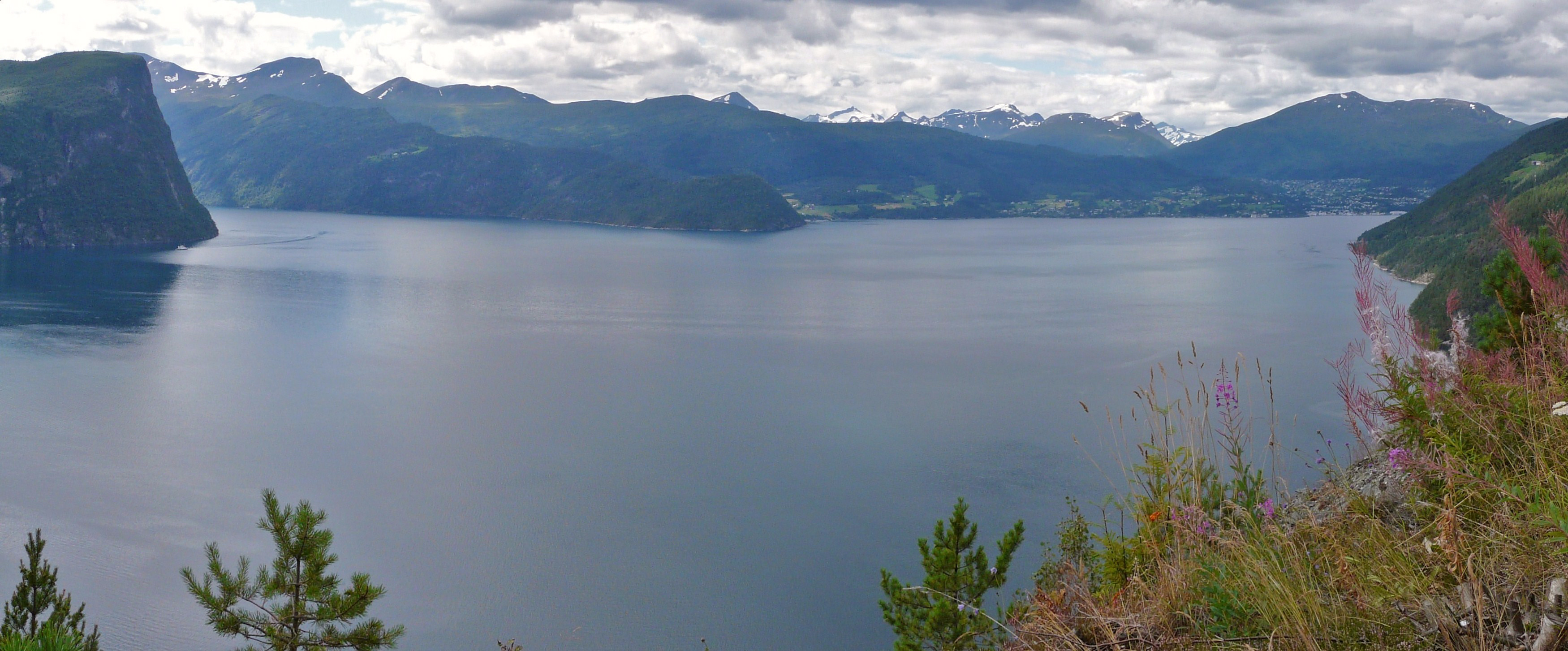 A view to Storfjorden to the south and west as seen from Riksvei 650 near Liabygda in 2008 August. Mouth of Sunnylvsfjorden. Skrenakken left, Stranda village right hand